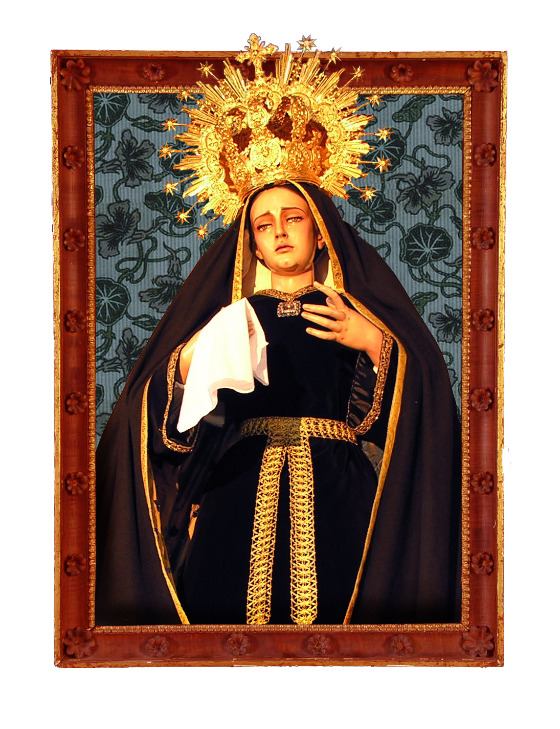 vignette of the Pilgrimage of Our Lady of Warfhuizen